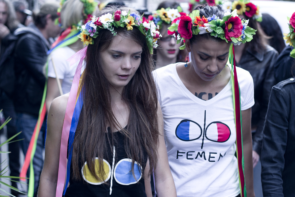 Oksana Shachko (left) and Safia Lebdi (right), in 2012.